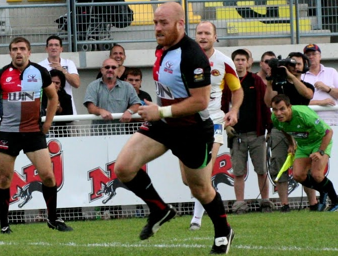 Danny Ward Quins